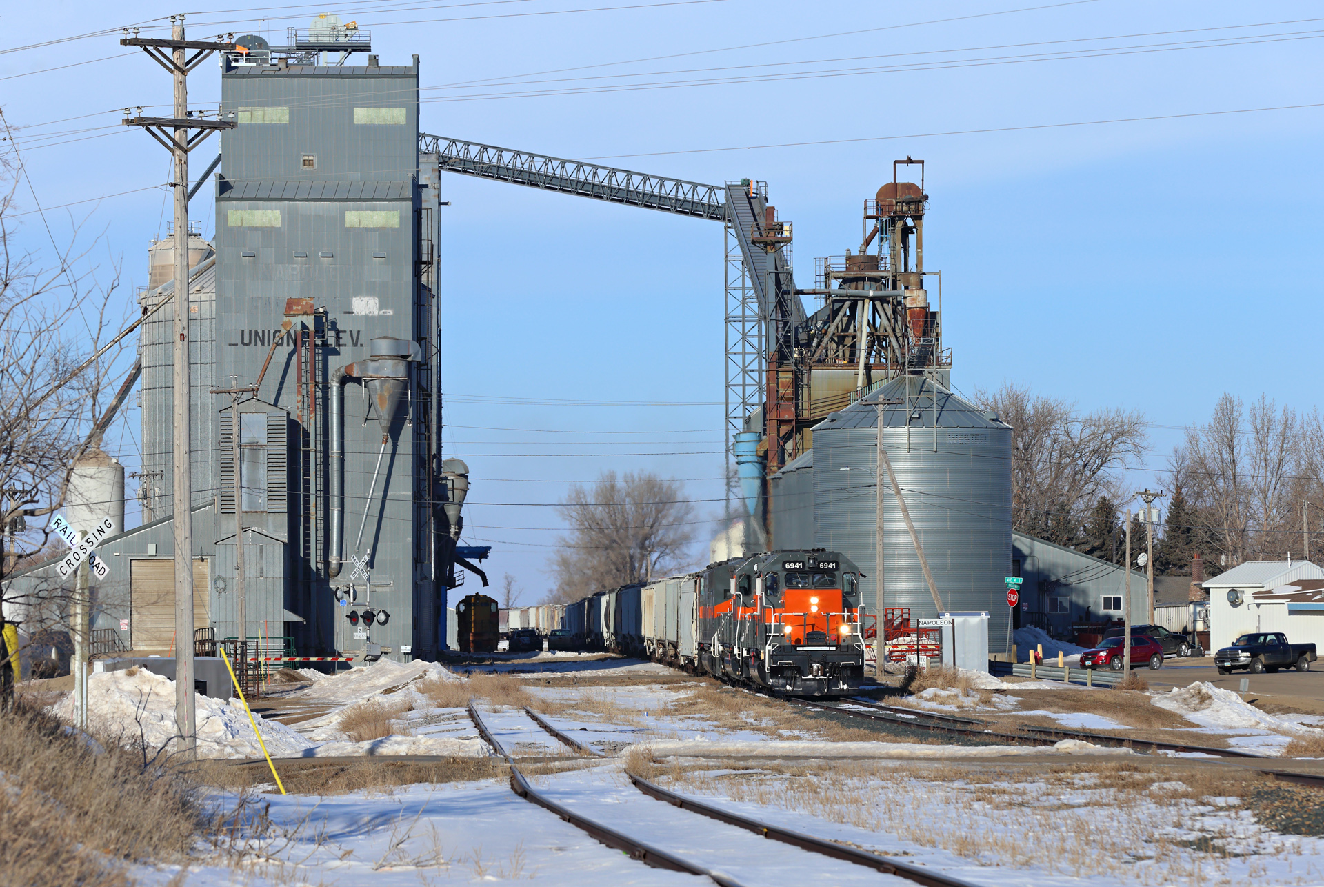 An eastbound DMVW corn train passes the Farmers Union Elevator at Napoleon, North Dakota, on January 11, 2019